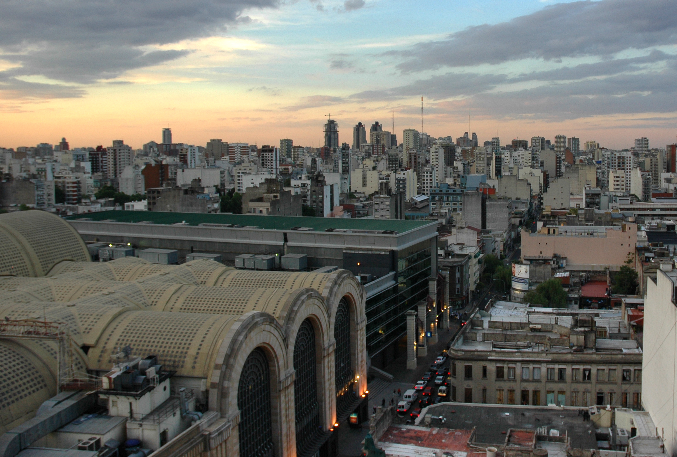 View of the Abasto section of the Balvanera district of Buenos Aires from Tomás de Anchorena Street; the neighborhood's namesake, the Abasto Shopping Center, is visible at left.